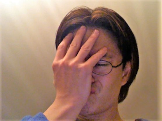 Facepalm photo